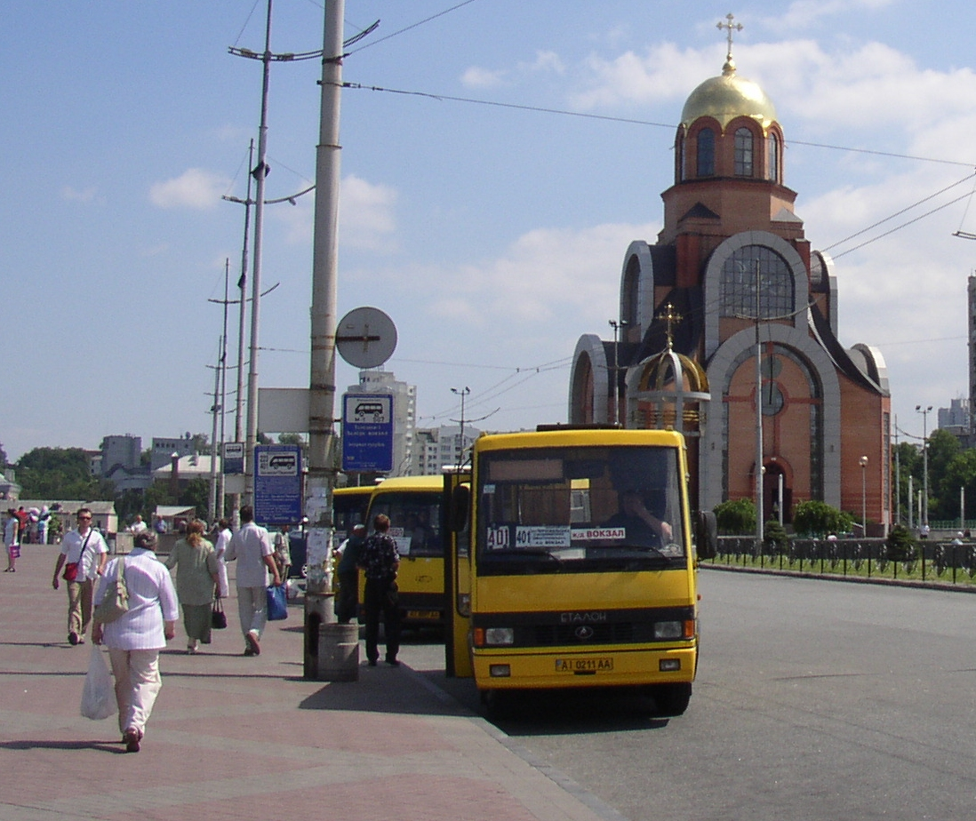 Photo taken at Vokzal plaza, Kiev, Ukraine. The main focus is the stopped Marshrutka.